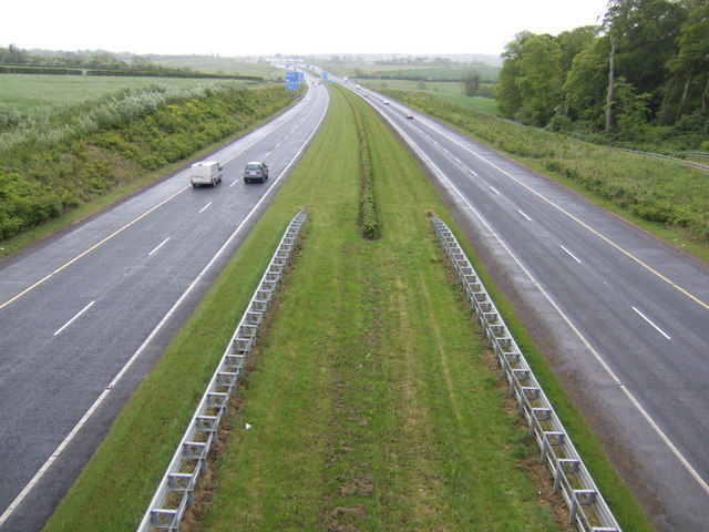 M1 Drogheda section looking south The toll plaza is in the distance.